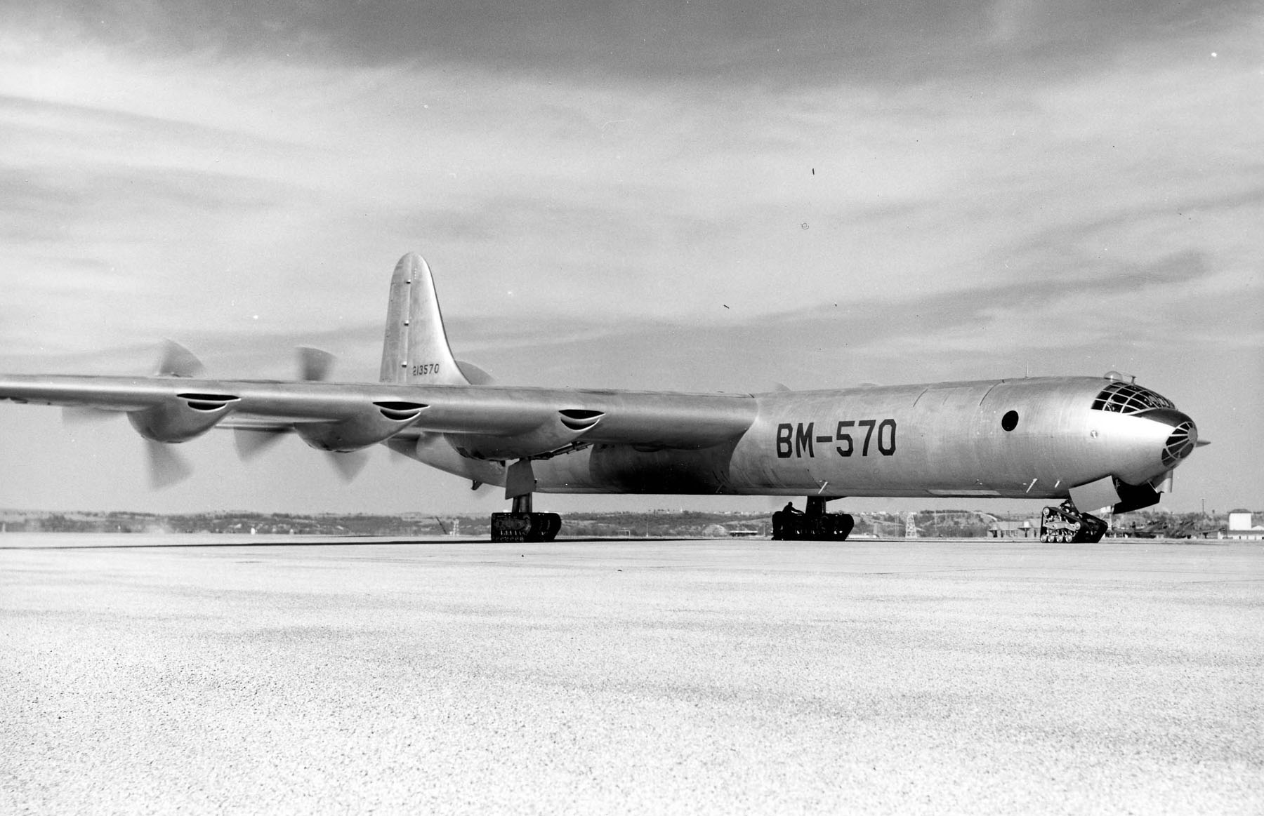 Convair XB-36